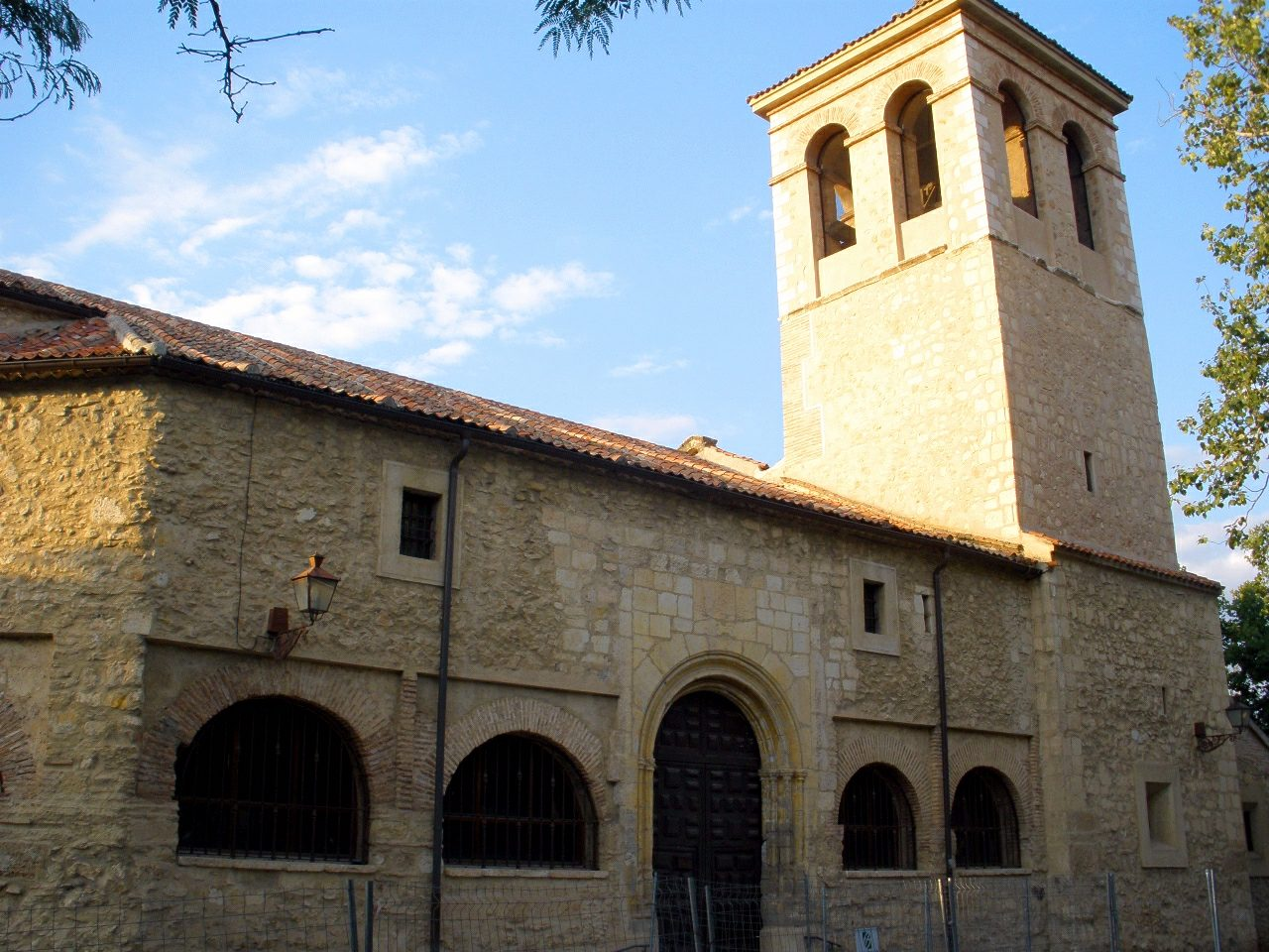 Iglesia de Santo Tomás (Segovia).